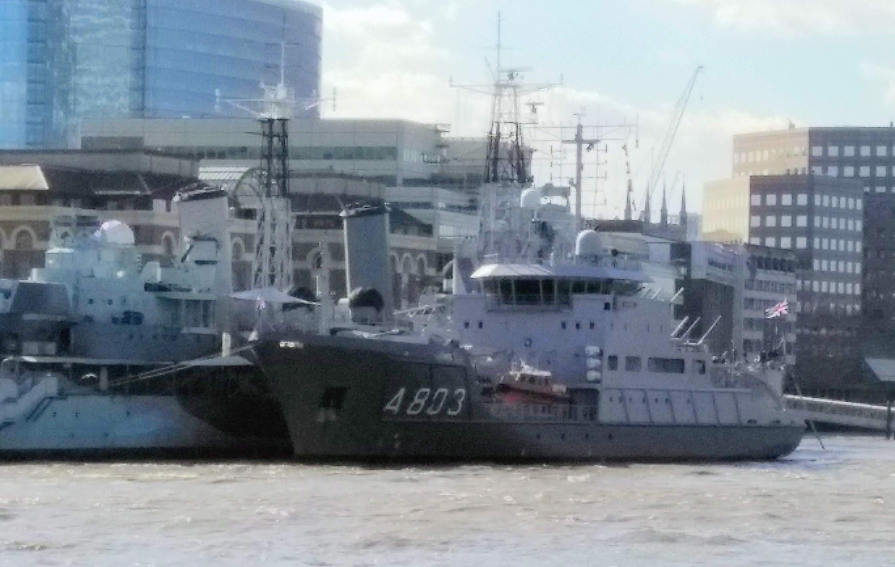 Dutch hydrographic ship HNLMS Luymes in London in March 2019